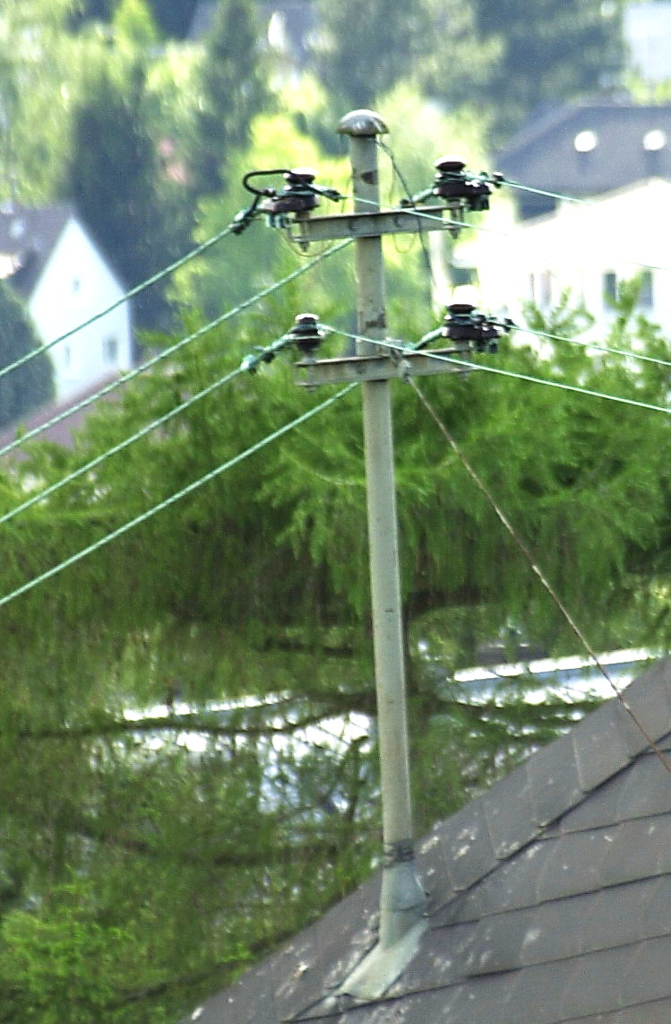 A roof stand in Wiesbaden, Germany